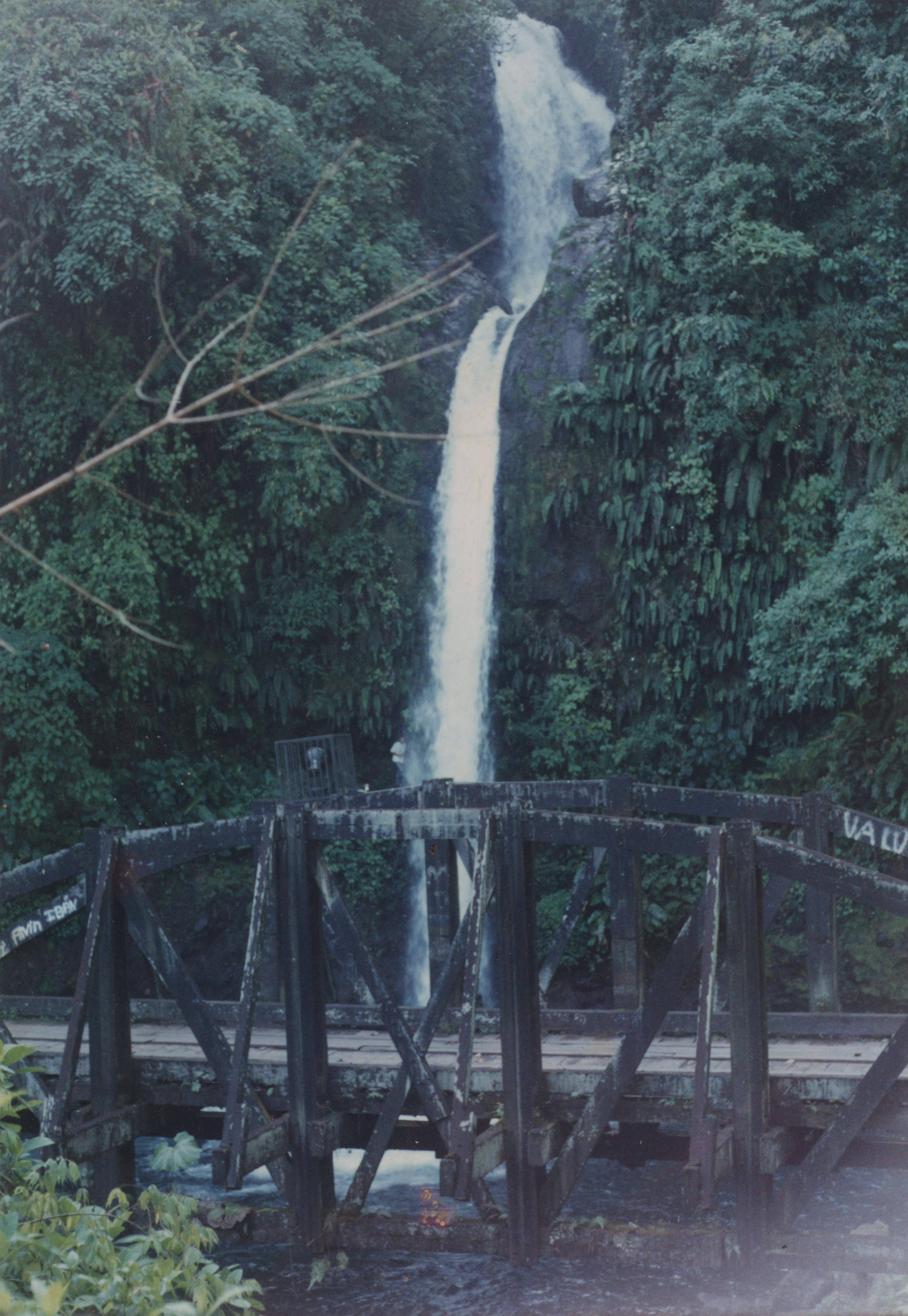 This picture shows the old wooden bridge that was installed near La Paz Waterfall in Heredia, Costa Rica.